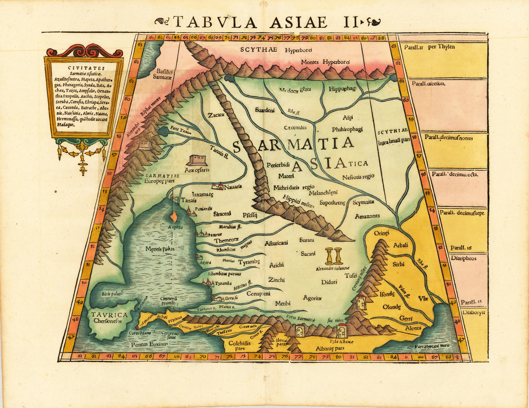 Tabula Asiae II - Sarmatia Asiatica, made by Sebastian Münster and published in his Ptolemy edition in 1552 in Basel at Heinrich Petri.